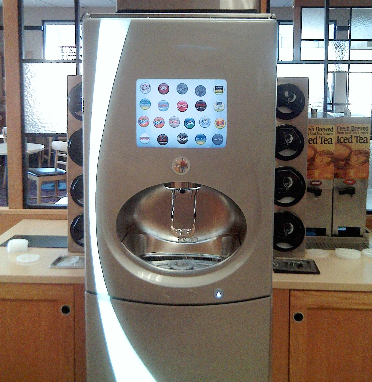 An example of a Coca-Cola Freestyle machine. This one was installed at a Wendy's in Irving, Texas.